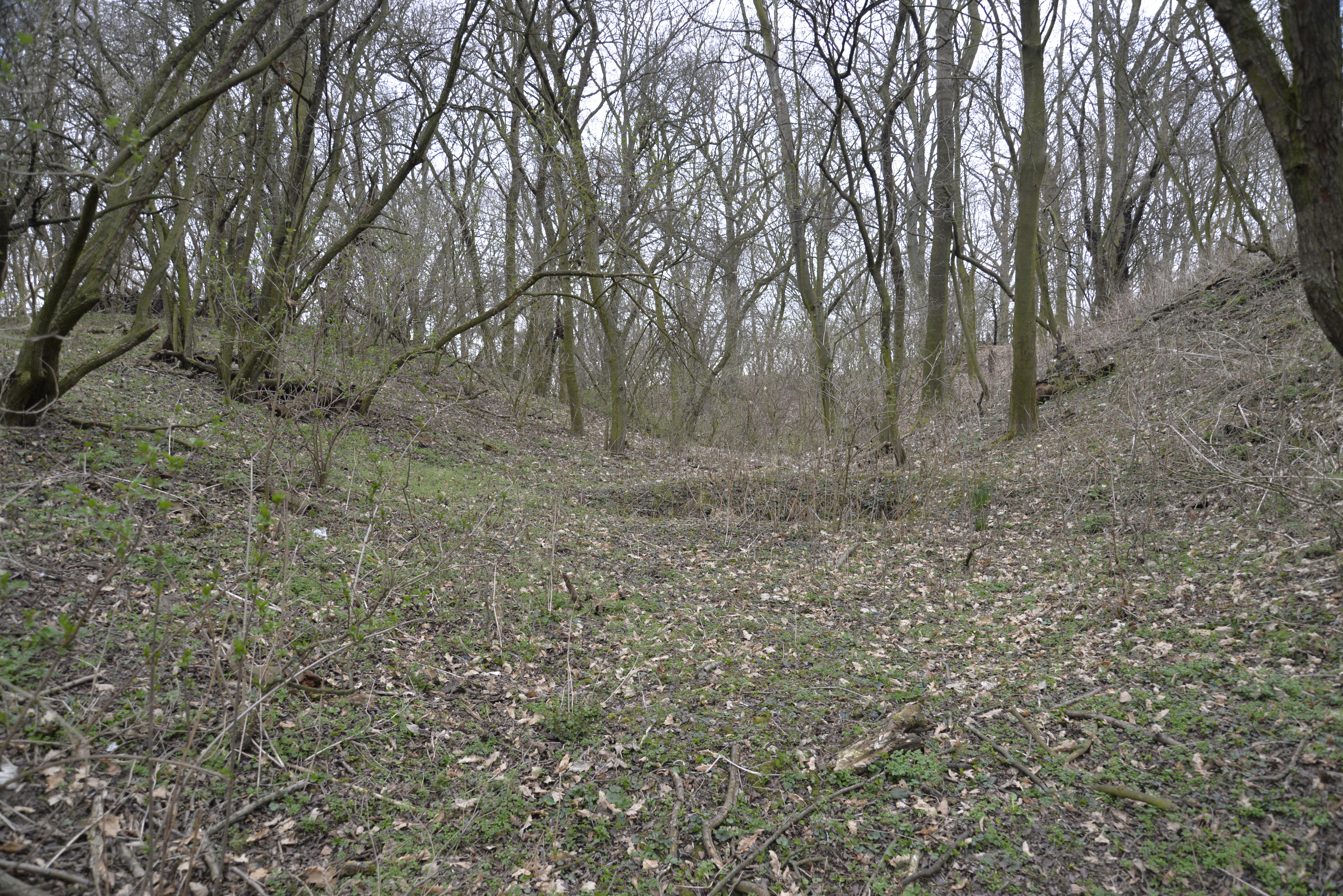 Fortress Hradiště, on East of village Řisuty